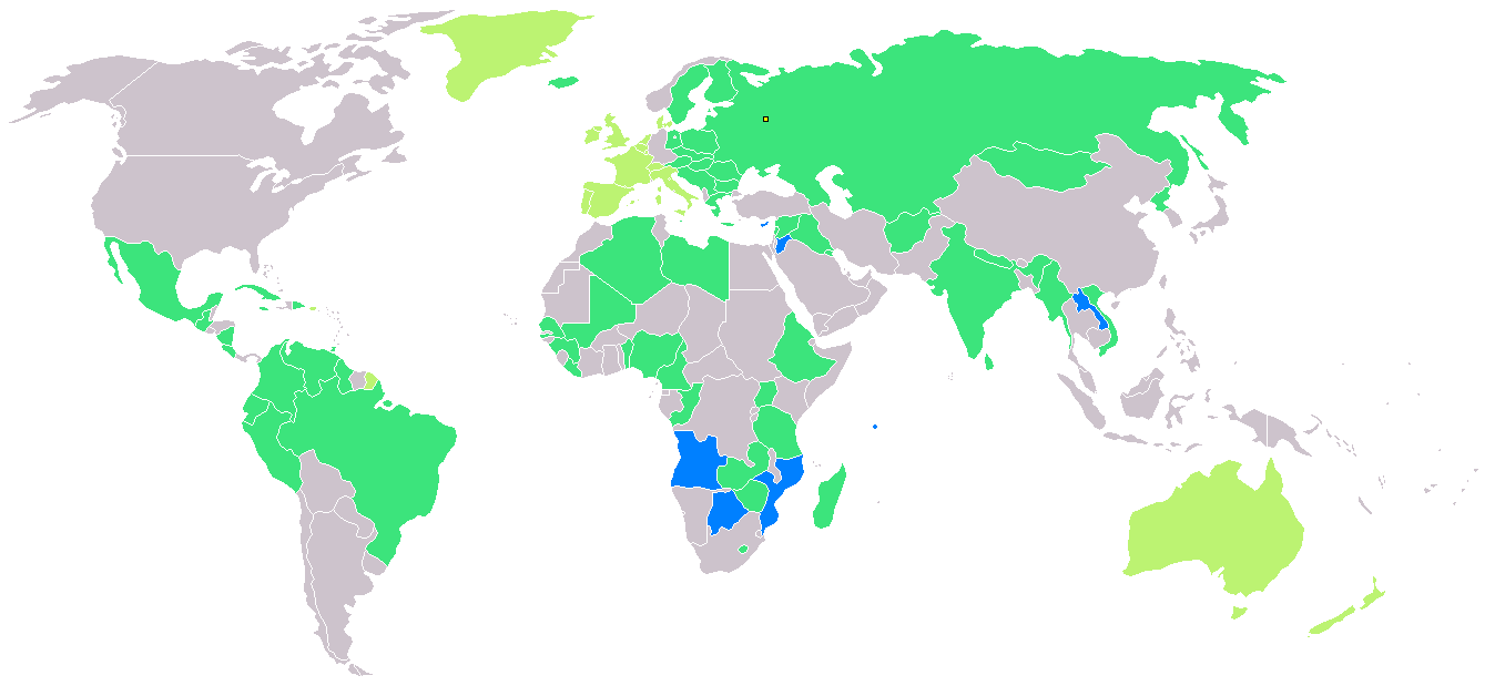 Countries which participated in the 1980 Summer Olympics, as listed at the olympic games museum, derived from blank world map. Blue = Participating for the first time. Green = Have previously participated. (*Light Green = Competed under Olympic flag.) Yellow square is host city (Moscow).